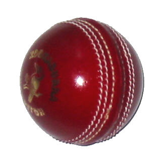 Created by User:Stephen Turner from Image:Cricketball 04.jpg by User:Albinomonkey. Both the users have released it under PD licence.